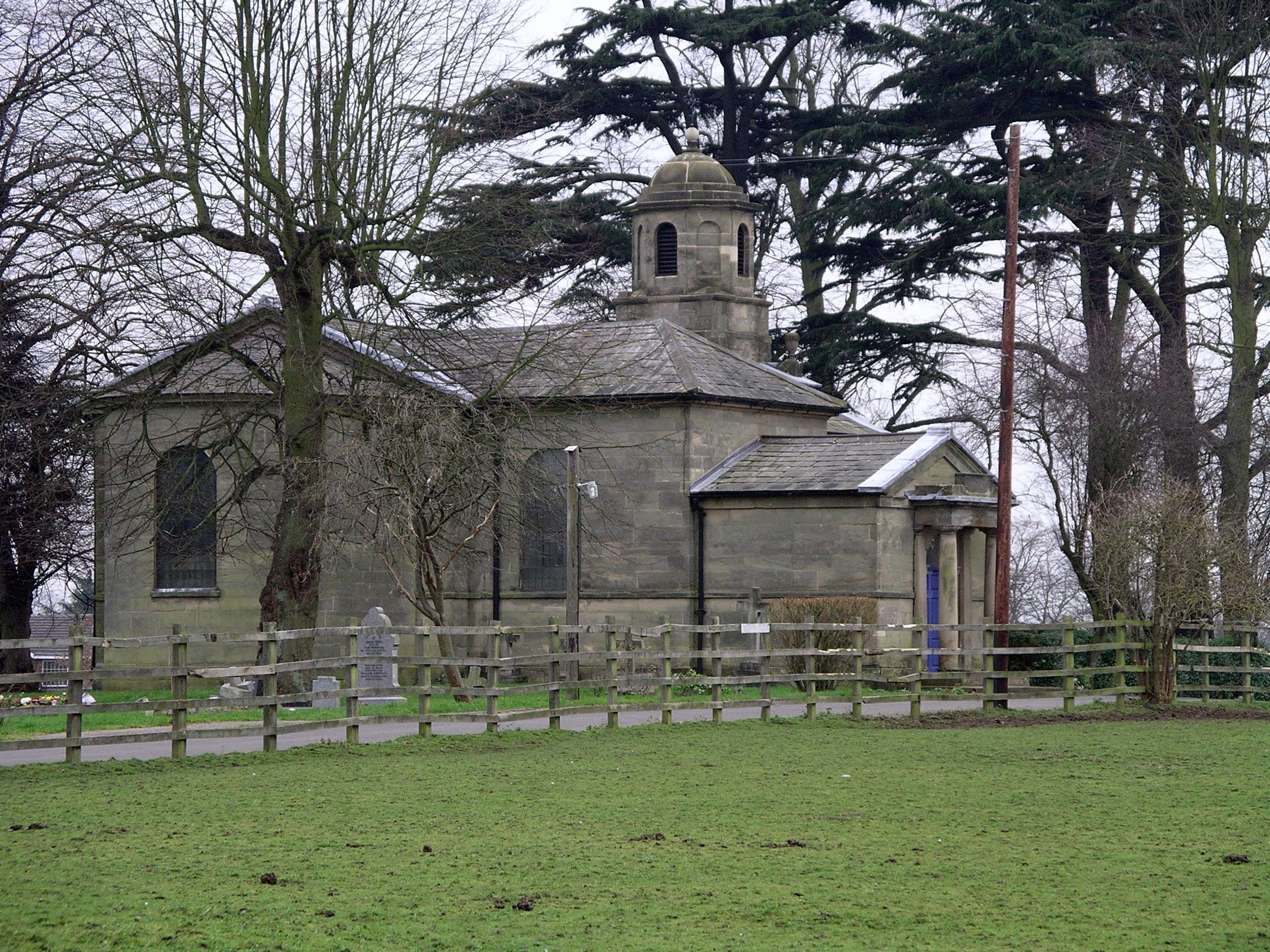 Photograph taken on 1 February 2007 of St Bartholomew's Church, Binley, Coventry, West Midlands, England.